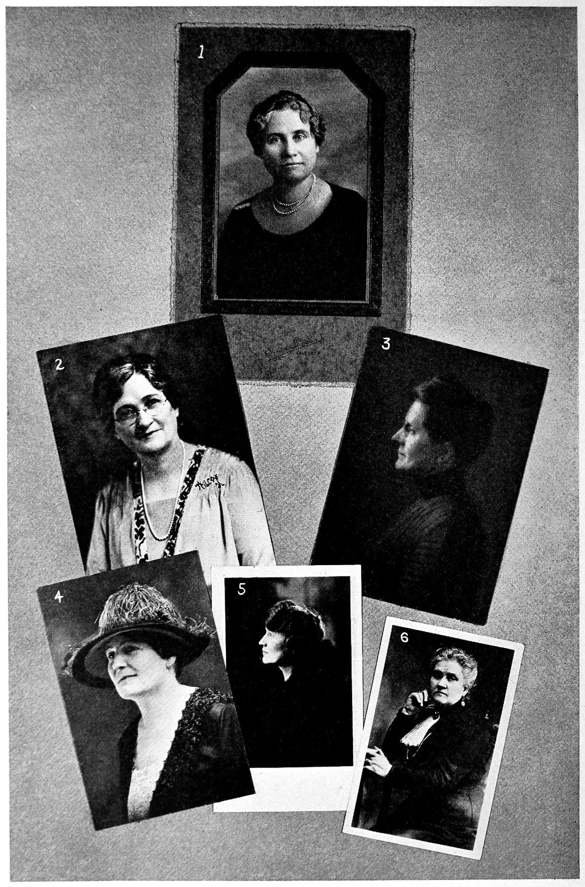 Women of the West; a series of biographical sketches of living eminent women in the eleven western states of the United States of America by Binheim, Max; Elvin, Charles A. Publication date 1928 Topics Women Publisher Los Angeles, Calif., Publishers Press Collection uconn_libraries; americana Digitizing sponsor LYRASIS Members and Sloan Foundation Contributor University of Connecticut Libraries Language English 223 p. bports. c24 cm. Bookplateleaf 0003 Call number F595 .B59 Camera Canon EOS 5D Mark II Identifier womenofwestserie00binh Identifier-ark ark:/13960/t22c0sd8h Lccn 28021005 Ocr ABBYY FineReader 8.0 Page-progression lr Pages 284 Possible copyright status Copyright either not claimed or not renewed. Item is in the public domain. Ppi 500 Scandate 20130807152456 Scanner Scanningcenter boston Full catalog record MARCXML